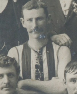 Photograph of Charlie Sime in 1901.